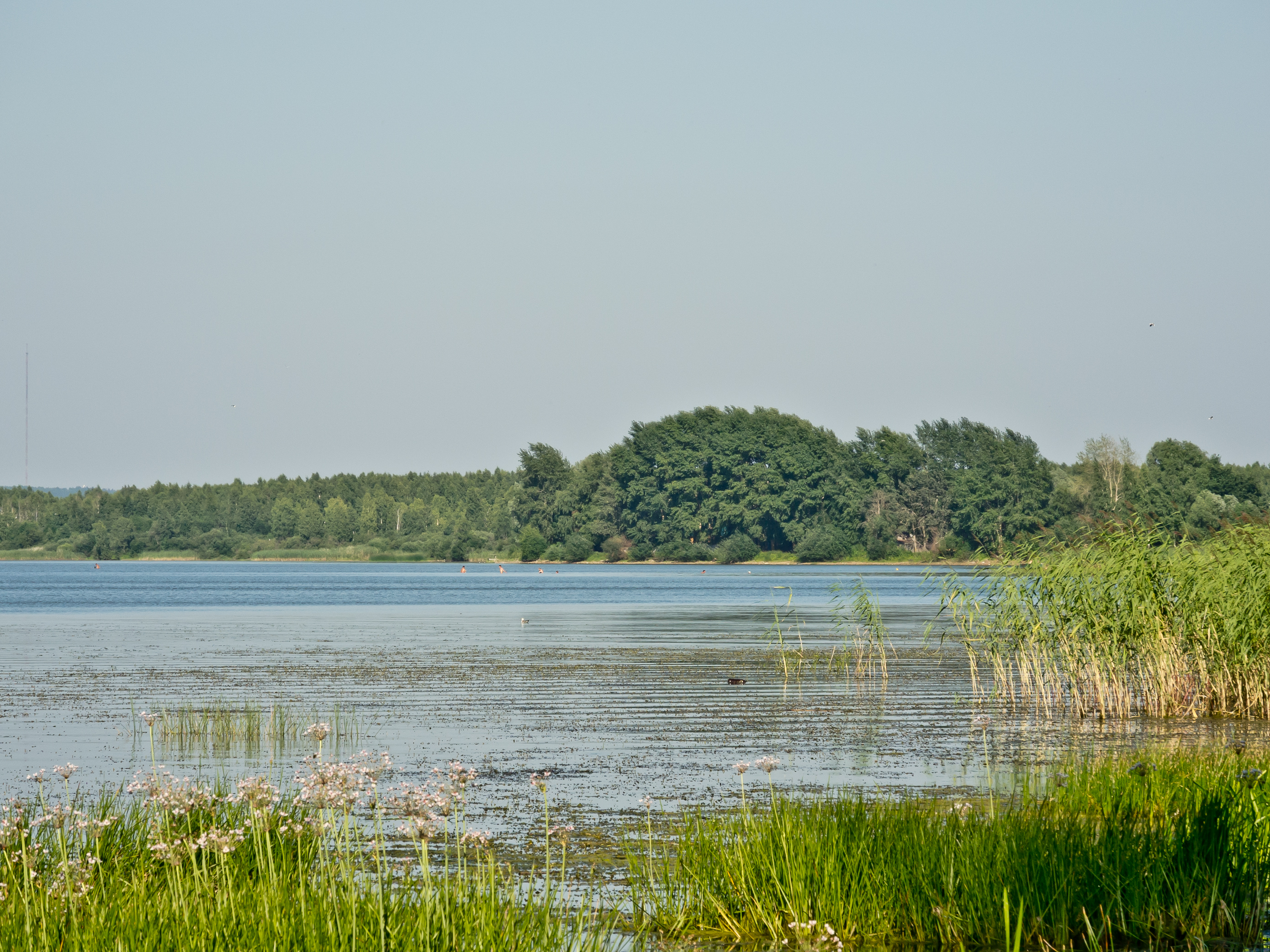 Galich Lake, Russia